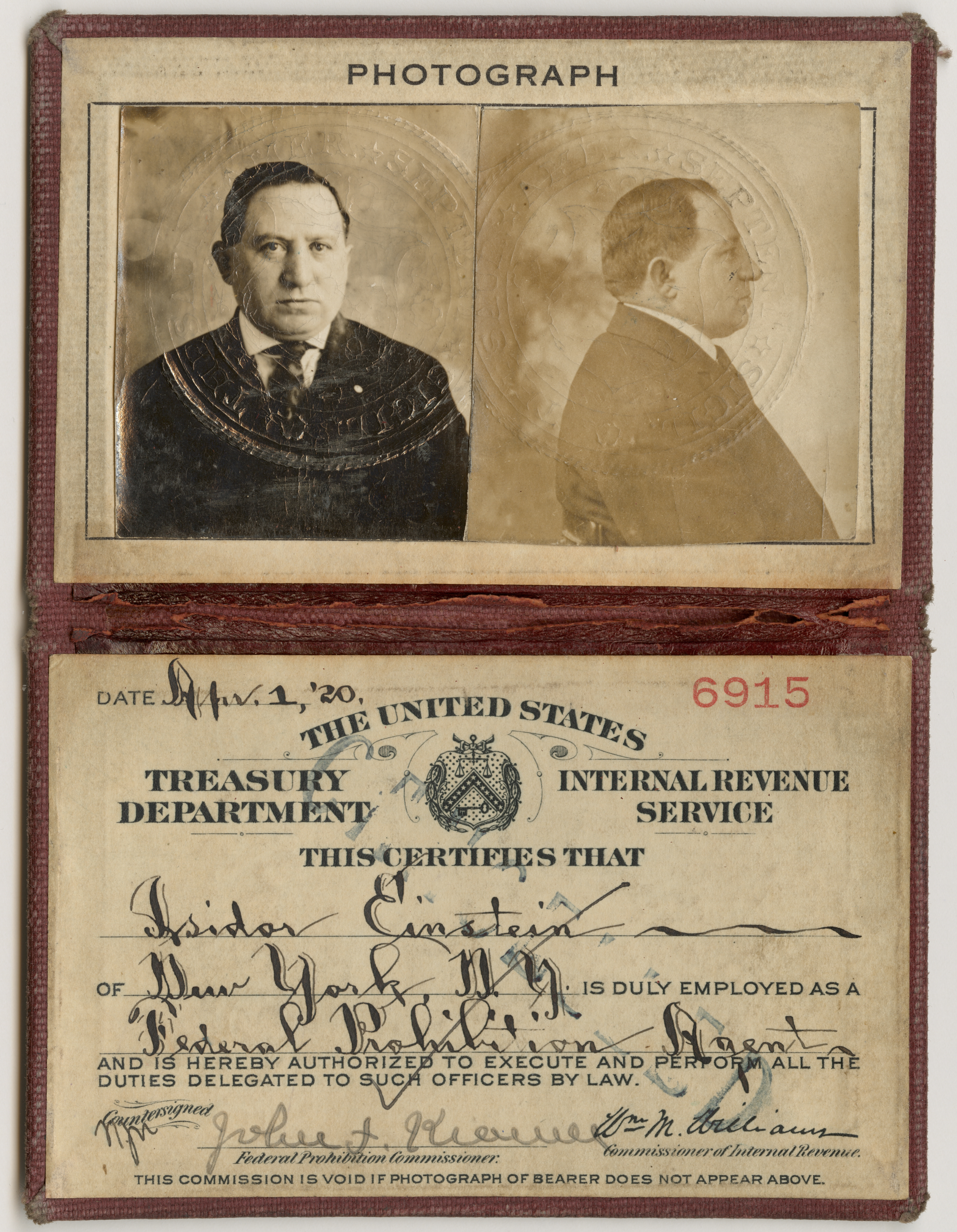 Identification Card for Prohibition Agent Isidor Einstein, New York